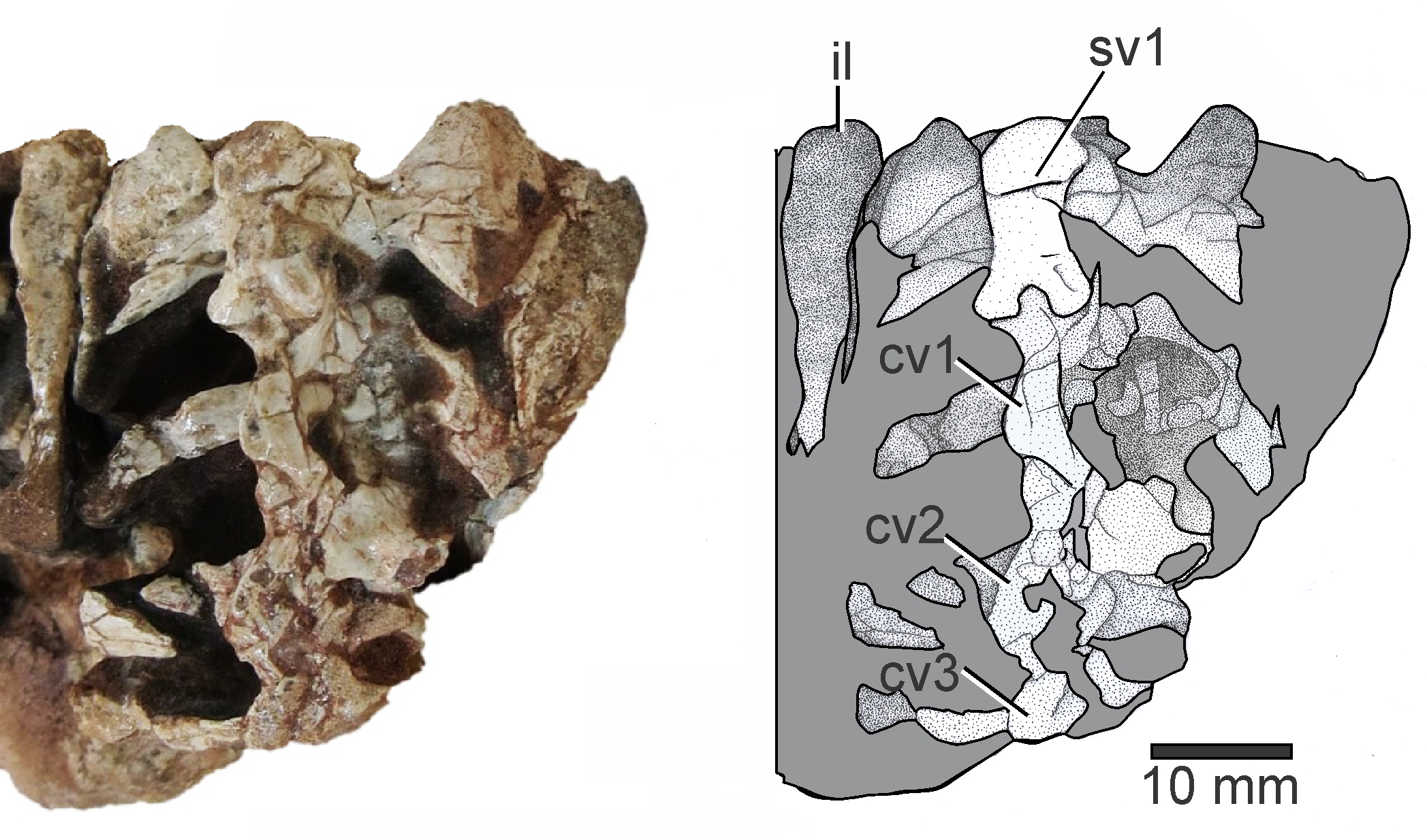 Sacral and caudal vertebrae of Elessaurus gondwanoccidens (UFSM 11471) in dorsal view. Photograph and explanatory drawing respectively. Abbreviations: sv2, second sacral vertebra; cv, caudal vertebrae 1–3.